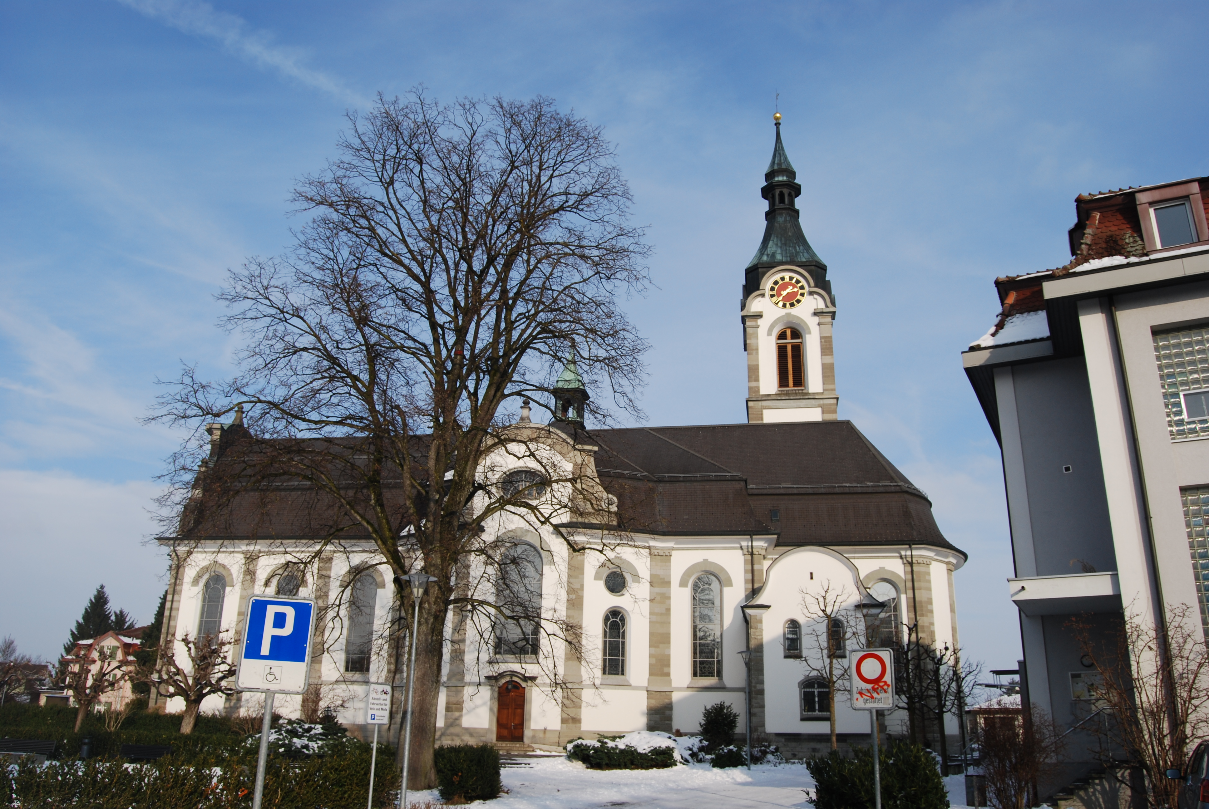 Church of Widnau, canton of St. Gallen, SwitzerlandEsperanto: Preĝejo de Widnau, Kantono Sankt-Galo, Svislando